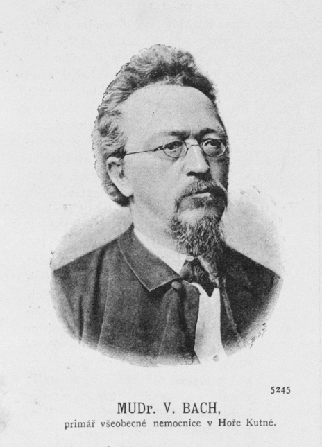 Photo of Václav Bach (1826-1897), Czech physician and politician, head physician of a hospital in Kutná Hora.